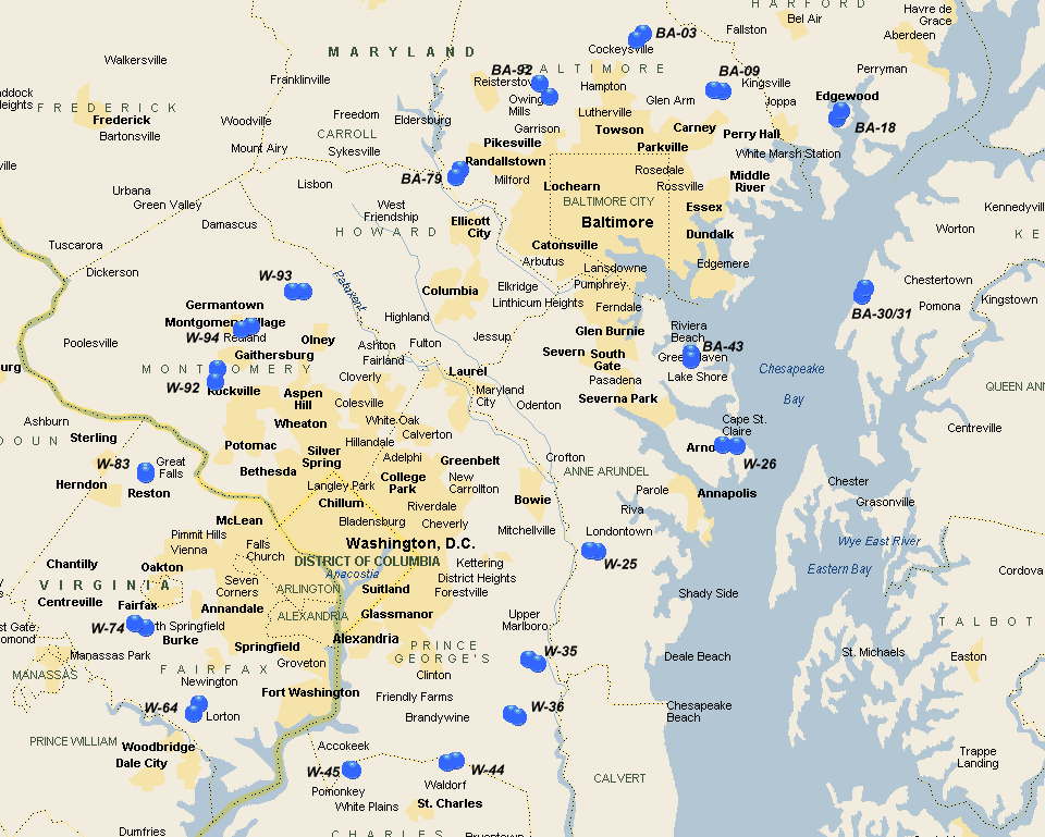 Washington-Baltimore Defense Area Nike Missile Sites